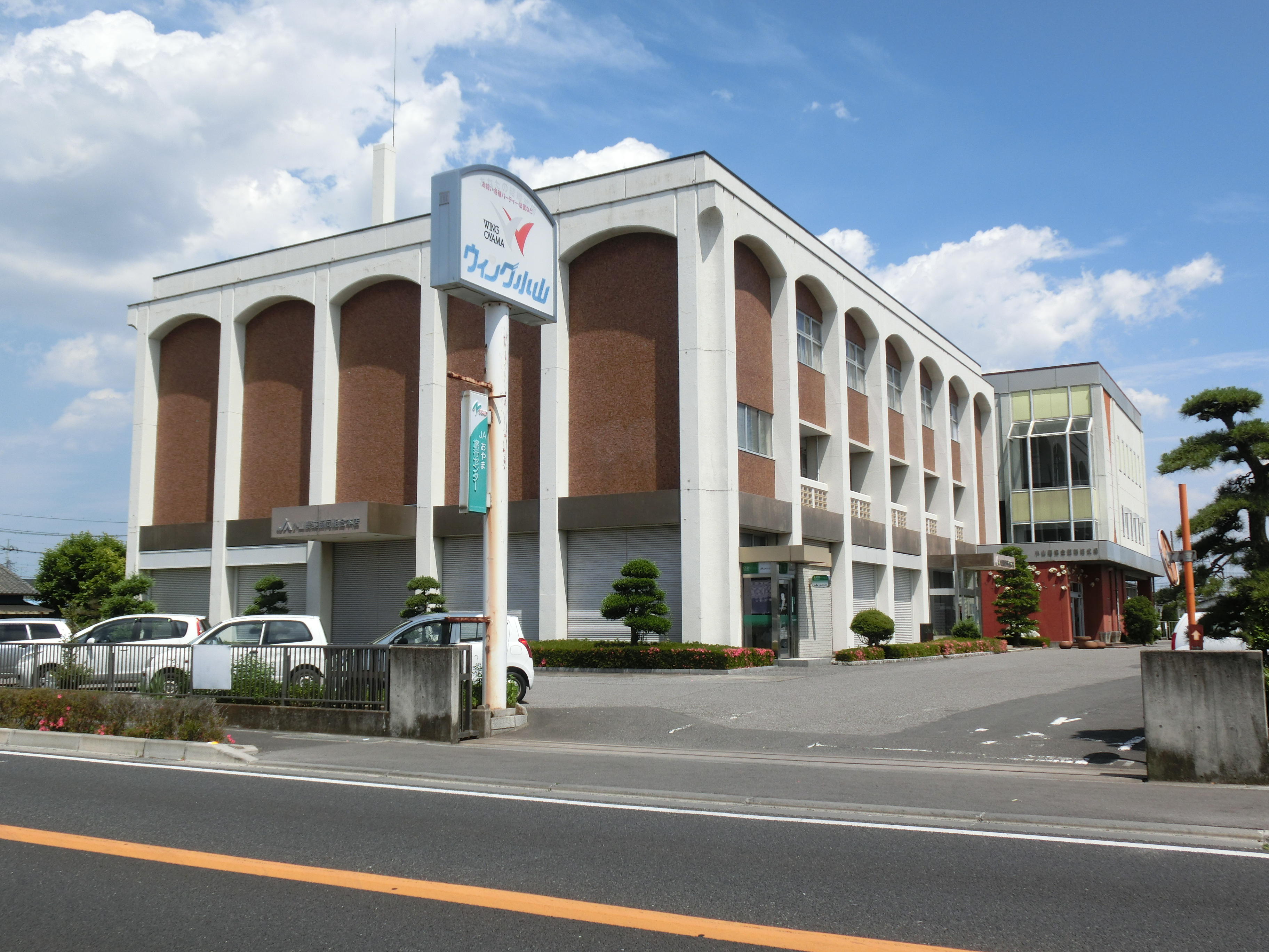 JA Oyama Headquarters